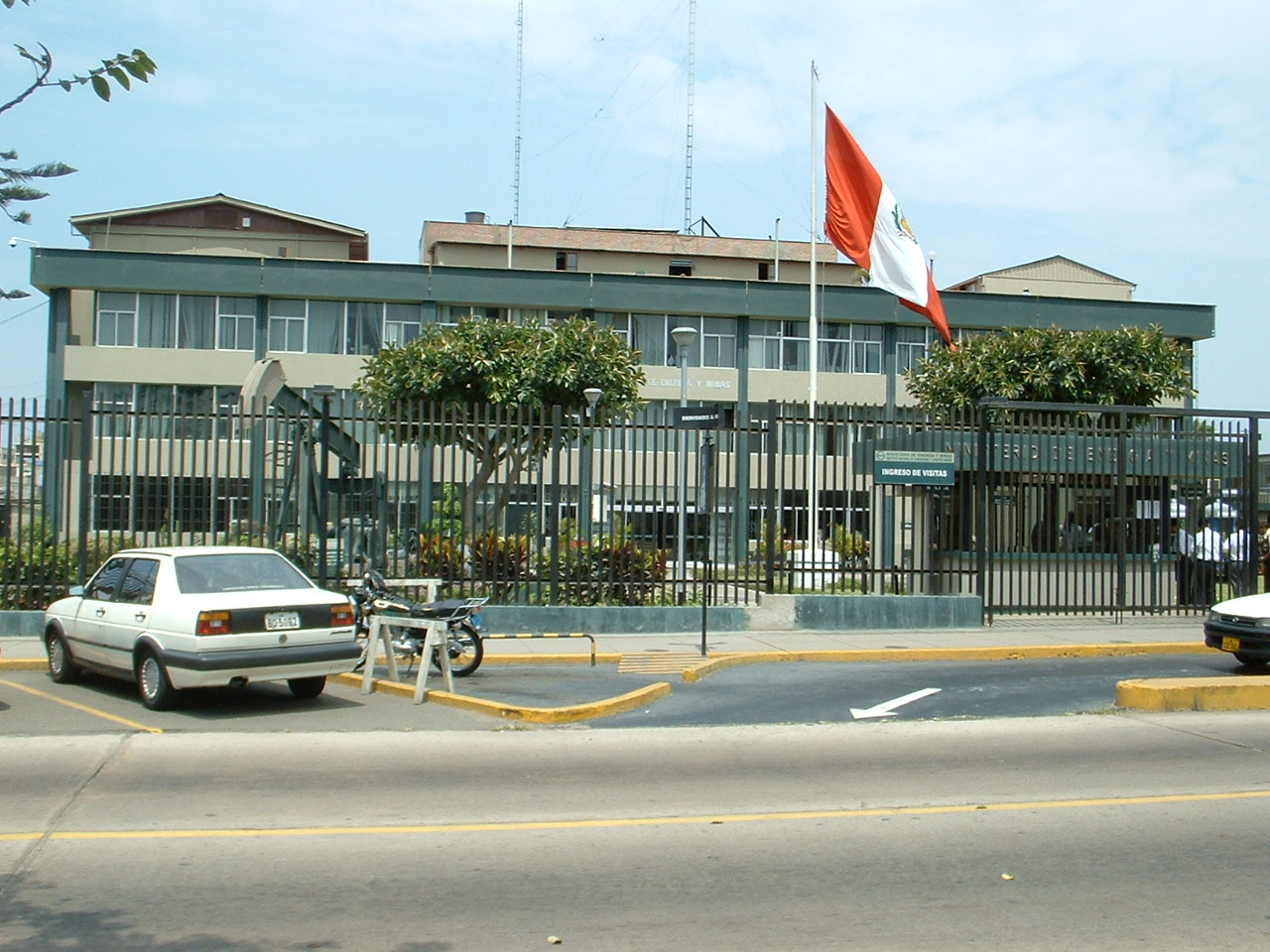 Ministry of Energy and Mines building, San Borja District ([1])